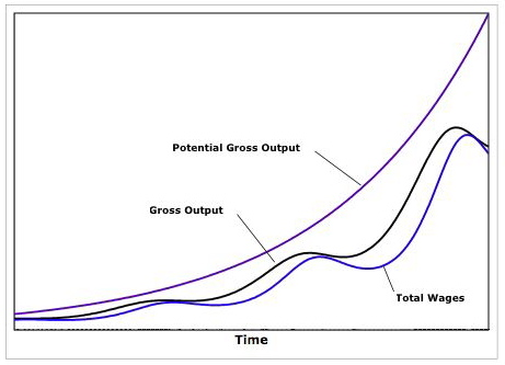 A graph for the trajectory in the Goodwin Model